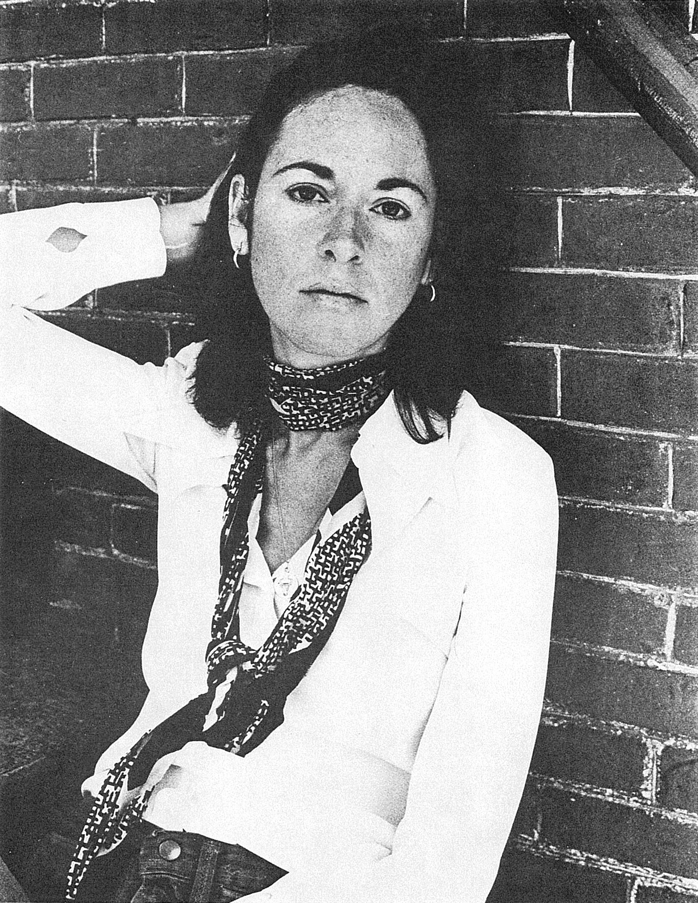 Portrait of Louise Glück used for a poster promoting a reading at the Poetry Center at the Museum of Contemporary Art in Chicago.